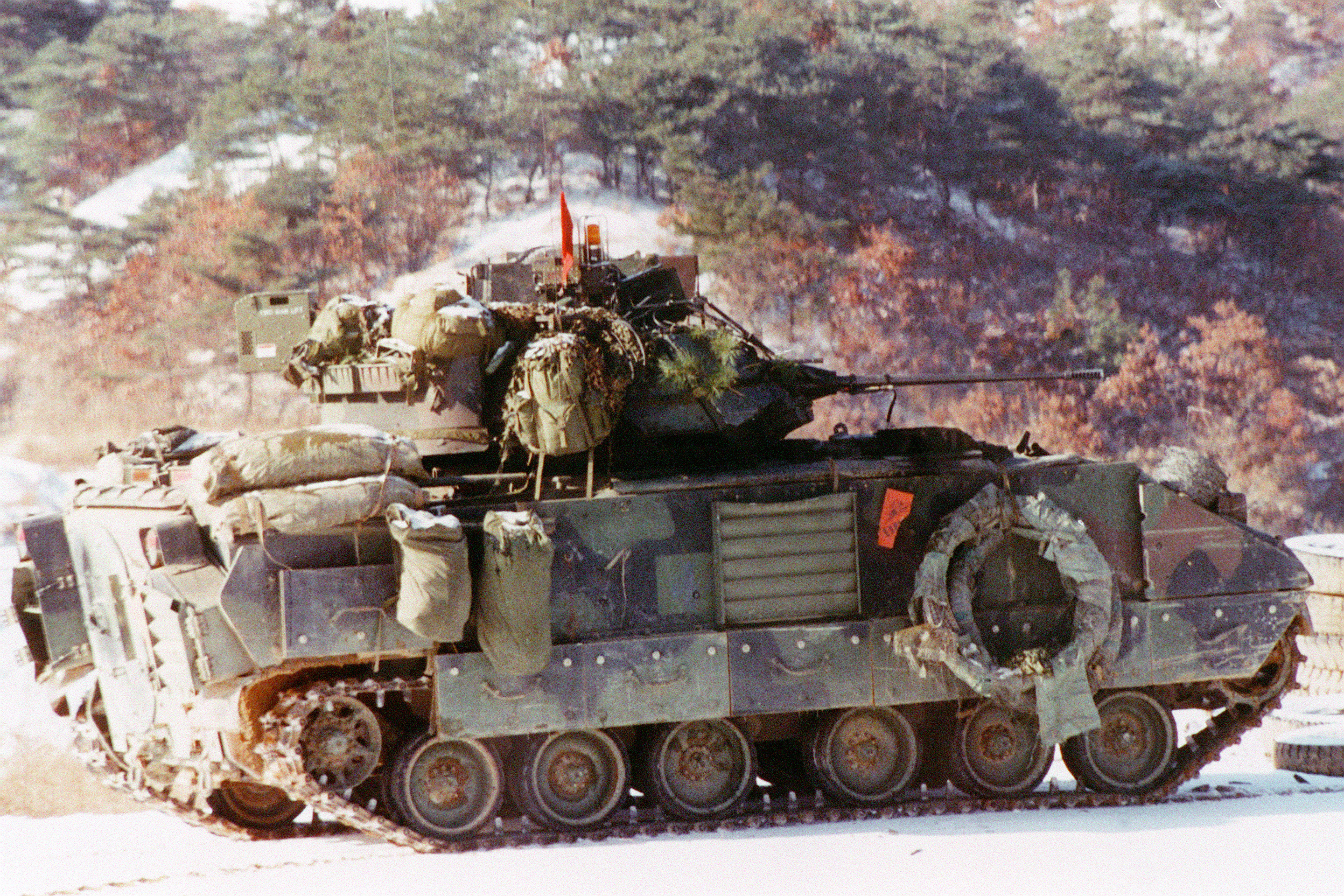 Close up view of a M2 Bradley from the 2nd, 9th Infantry at the Multi-Purpose Range Complex (MPRC).